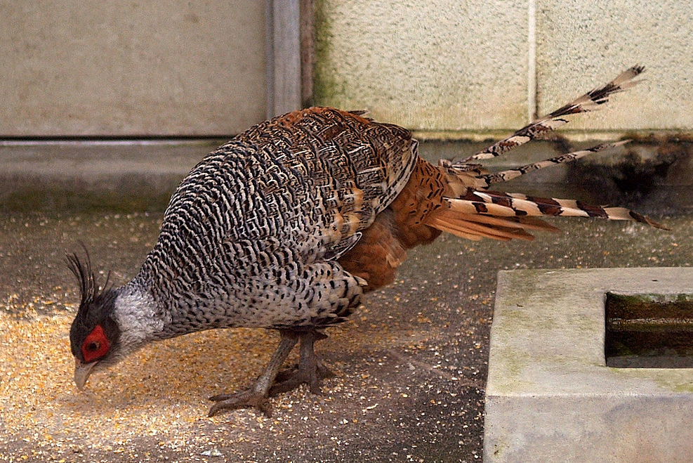 Male Cheer Pheasant (Catreus wallichi) カンムリキジ Cheer pheasant